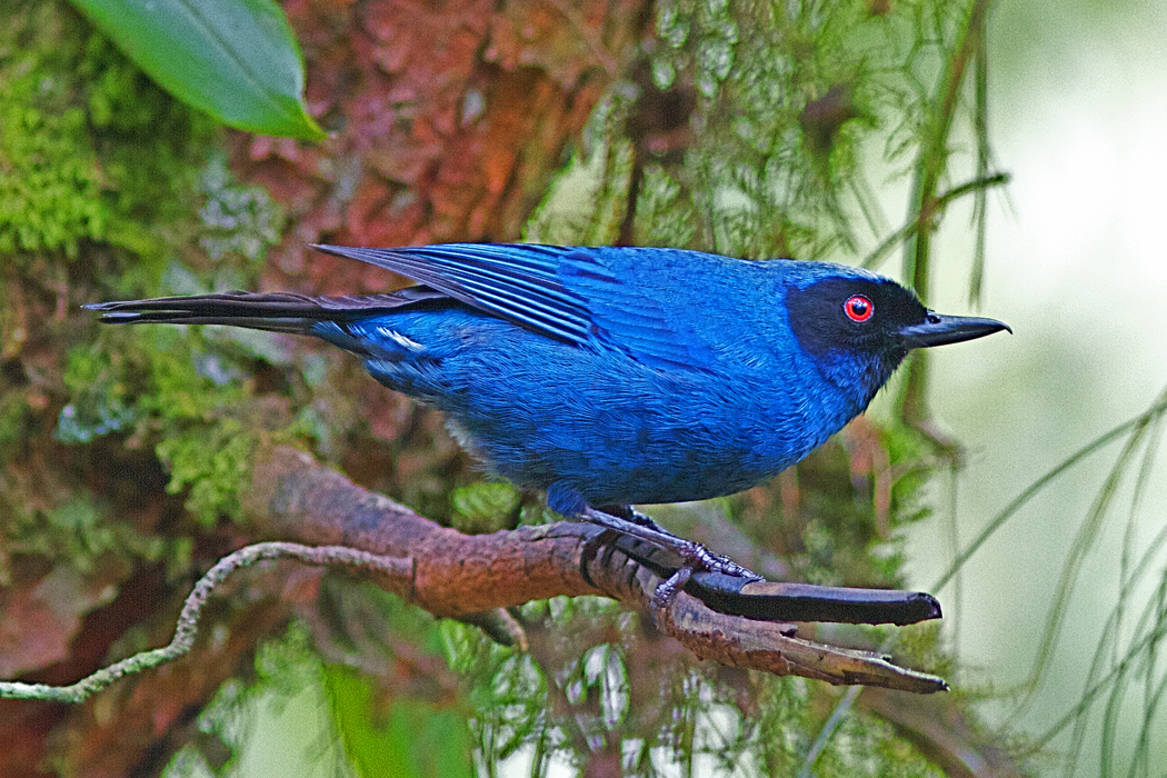 Masked Flowerpiercer photo taken at Guango Lodge (east slope), Ecuador.